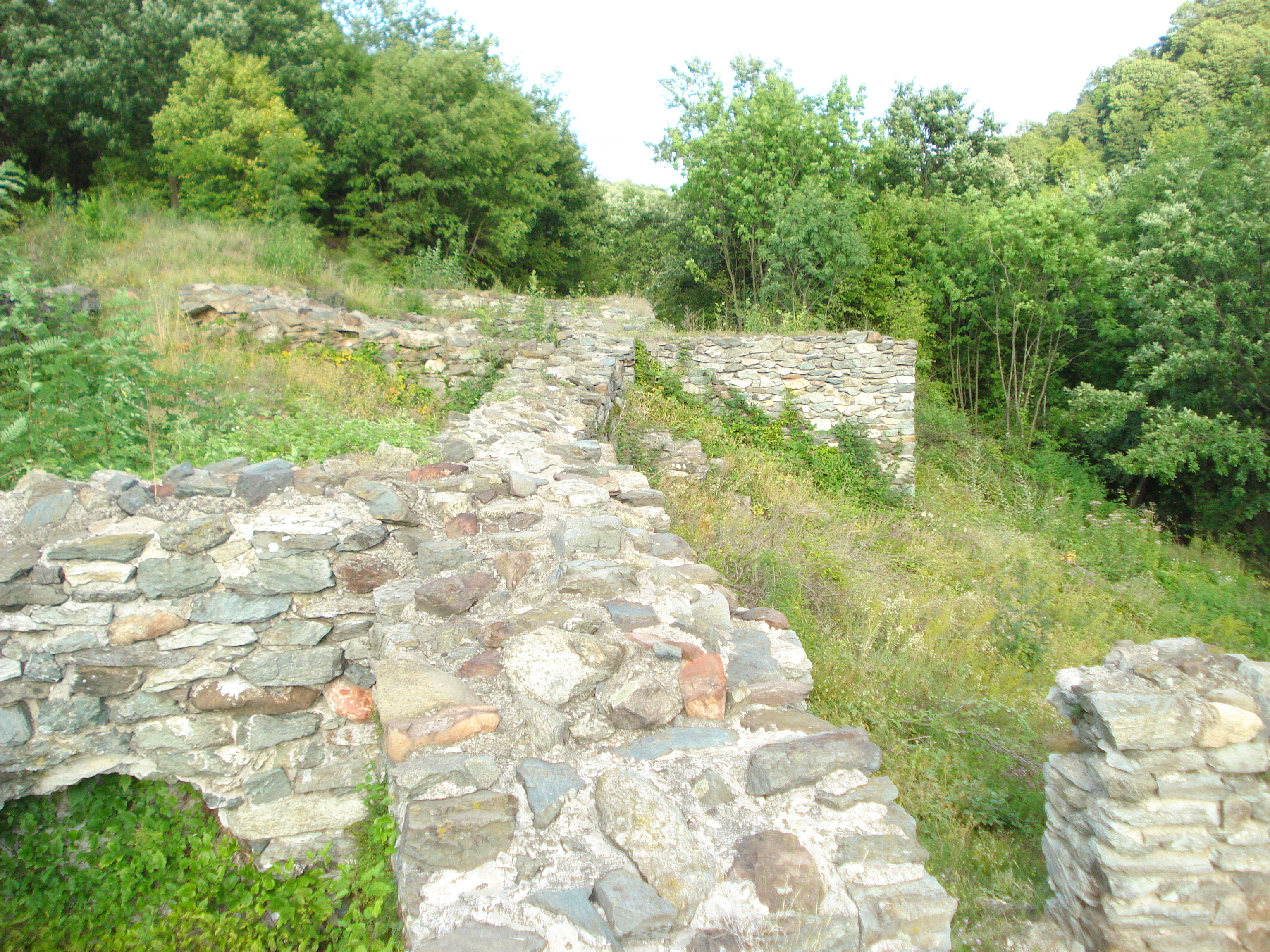 Kraku Lu Jordan, Brodice, Kučevo, Serbia. Roman fortification and gold foundry from III century A.D. Archaeological Sites of Exceptional Importance and Cultural Heritage of Serbia